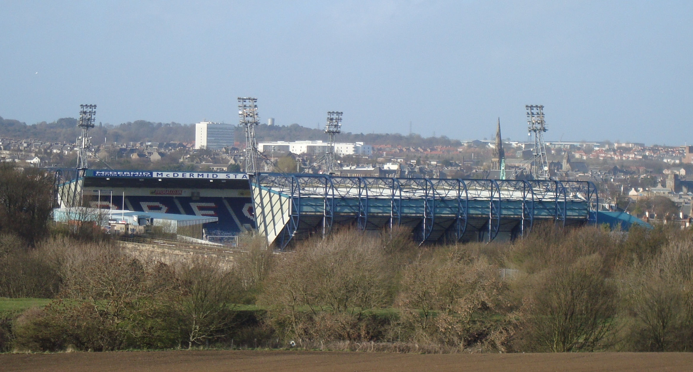 Starks Park, Kirkcaldy from the Jawbanes Road, to the south.